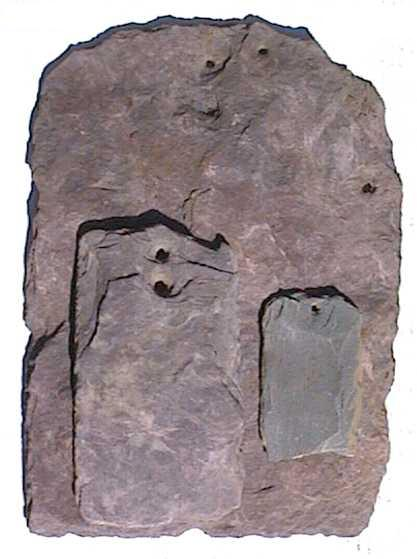 Slates